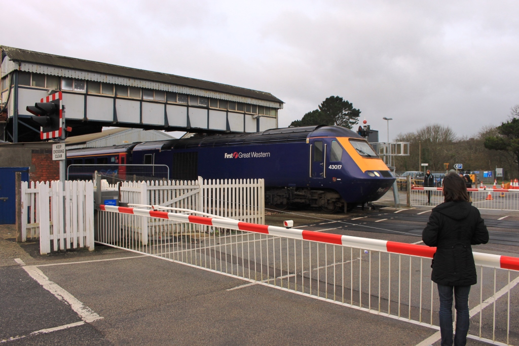 First Great Western's 43017 pulls out of Truro station in Cornwall with a train from Penzance to London Paddington.